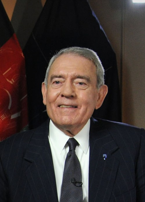 Lieutenant Gen. William B. Caldwell, IV, North Atlantic Treaty Organization Training Mission Afghanistan commander, left, speaks with Dan Rather, anchor and editor of Dan Rather Reports on the cable network HDNet, right, in General Caldwell’s office on Camp Eggers, Kabul, Afghanistan, July 27, 2011, about the Afghan National Army and Afghan National Police training mission and the tentative 2014 coalition to Afghan security transition. Dan Rather and his HDNet production team toured various training, recruiting, and educational centers around Afghanistan collecting footage for a segment set to air early September this year on the transition. (U.S. Air Force photo by Senior Airman Kat Lynn Justen)